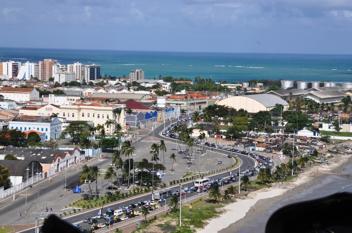 Center Maceio, Brasil.